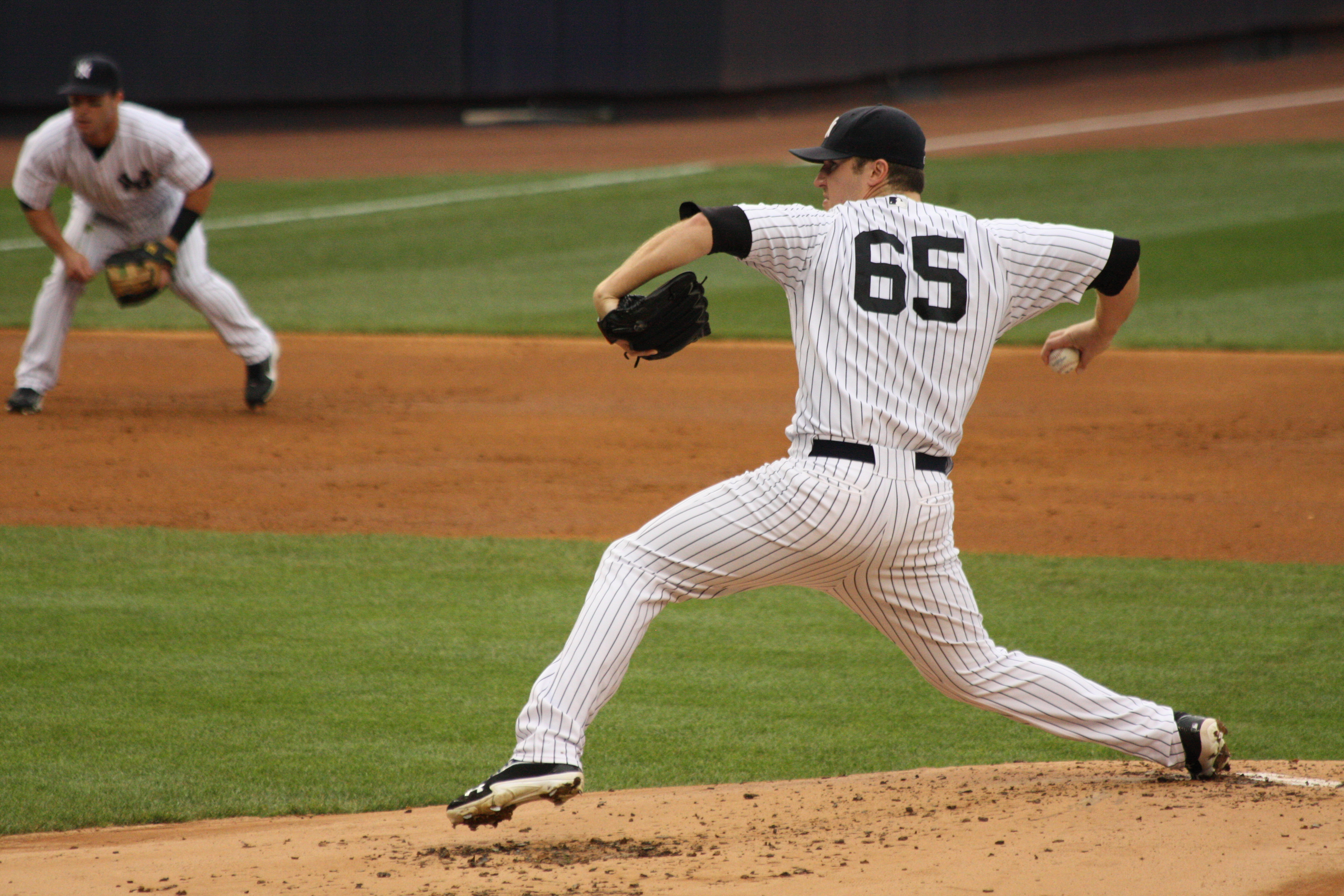 Phil Hughes pitching during a game between the New York Yankees and Baltimore Orioles on August 1, 2012 at Yankee Stadium in New York, NY